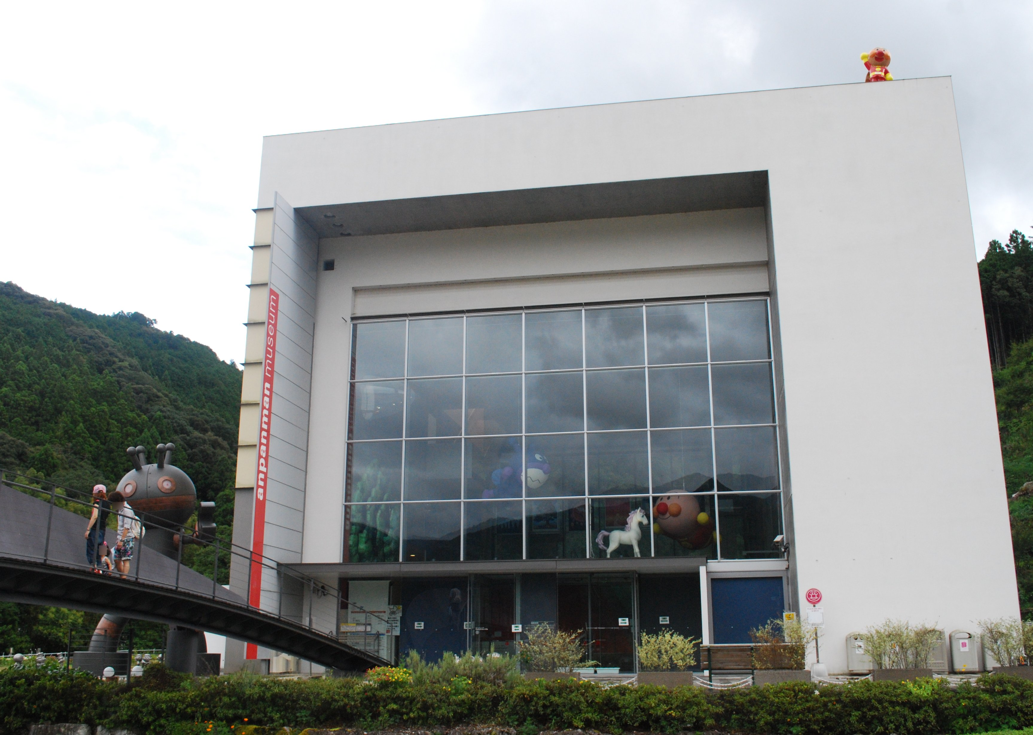 Anpanman Museum,Kami-city,Japan